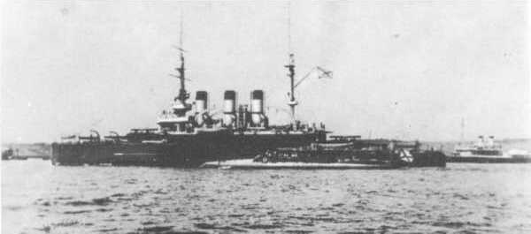 Imperial Russian battleship Kniaz' Potiomkin-Tavricheskii and Torpedo boat No.276.